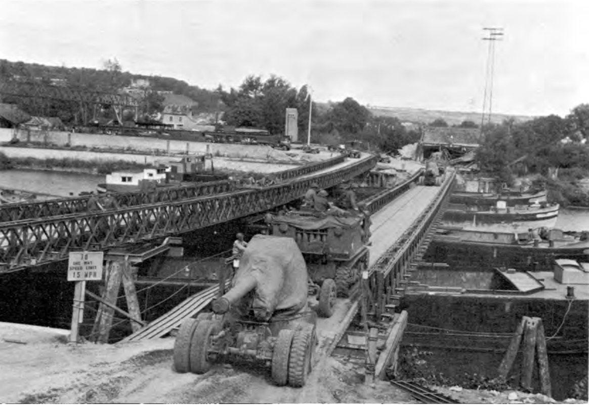 Barges being used to support Bailey bridging over the Seine at Mantes, France, August 1944